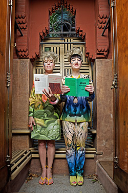 Portrait of the music band Chicks On Speed, photographed by Matti Hillig. The photo was taken in a apartment building of architect Gaudi in Gracia, Barcelona on May 5, 2009. Chicks On Speed is a multi-national musical and fine art ensemble, formed in Munich in 1997, when members Melissa Logan and Alex Murray-Leslie met at the Academy of Fine Arts. Their musical style is called electroclash. High-resolution versions of this and more photos are available. Please contact me